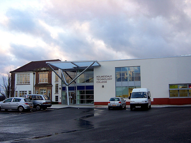 Holmesdale Technology College, Snodland Old meets new - on the left is the 1930's "Howard Building", on the right is part of the new school - the library, offices and classrooms upstairs, hall and canteen downstairs. The OS map gridline cuts directly through this facade...!